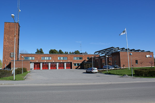 Fire station Vällingby in Stockholm, Sweden